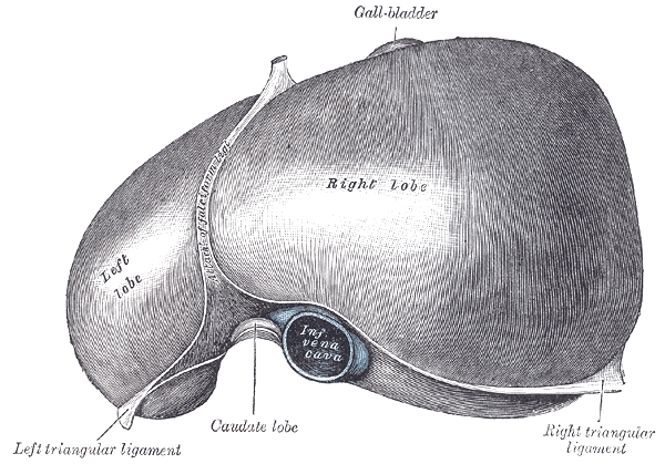 The superior surface of the liver. (From model by His.)